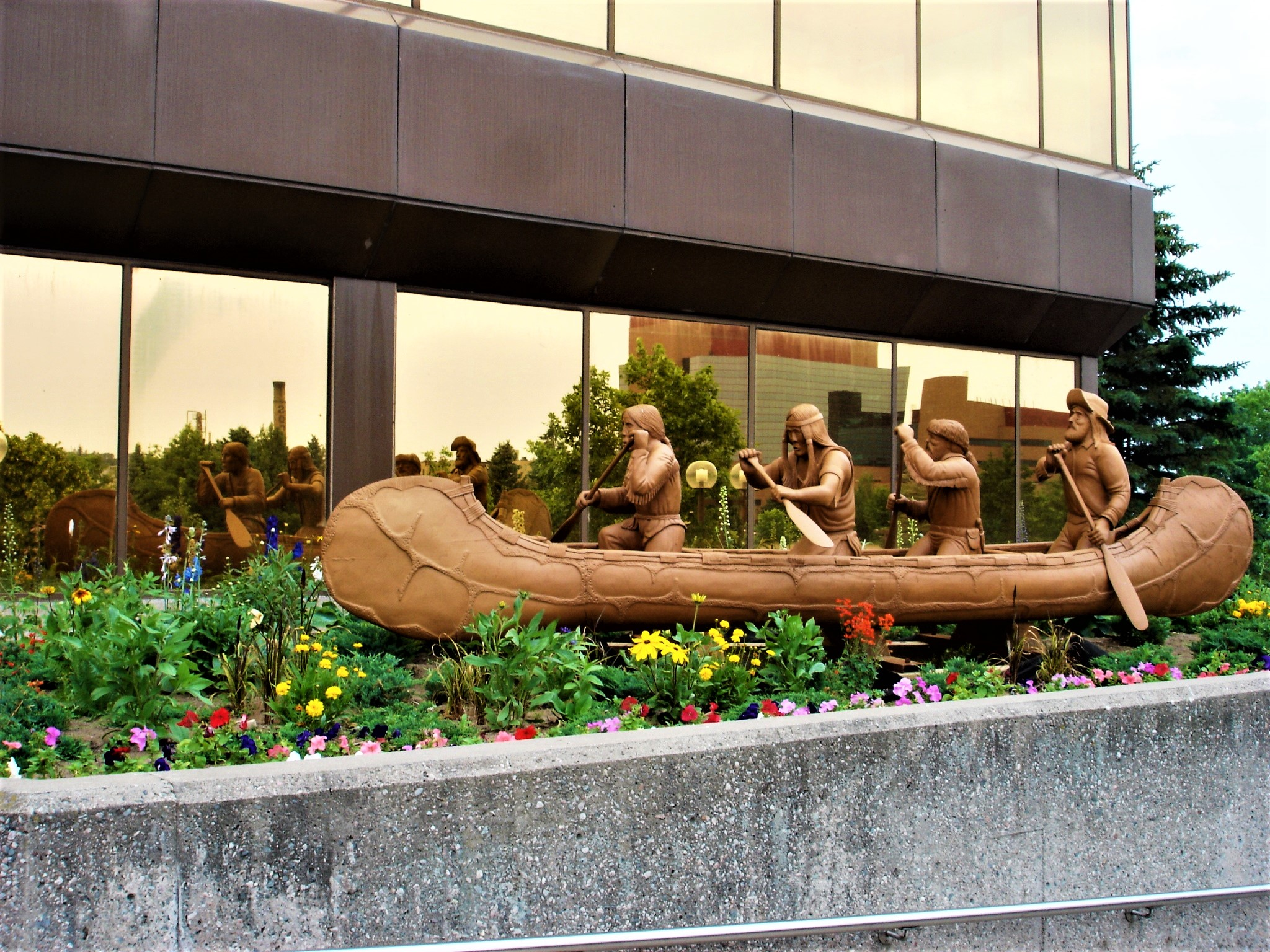 Civic Centre -Sault Ste. Marie-Ontario